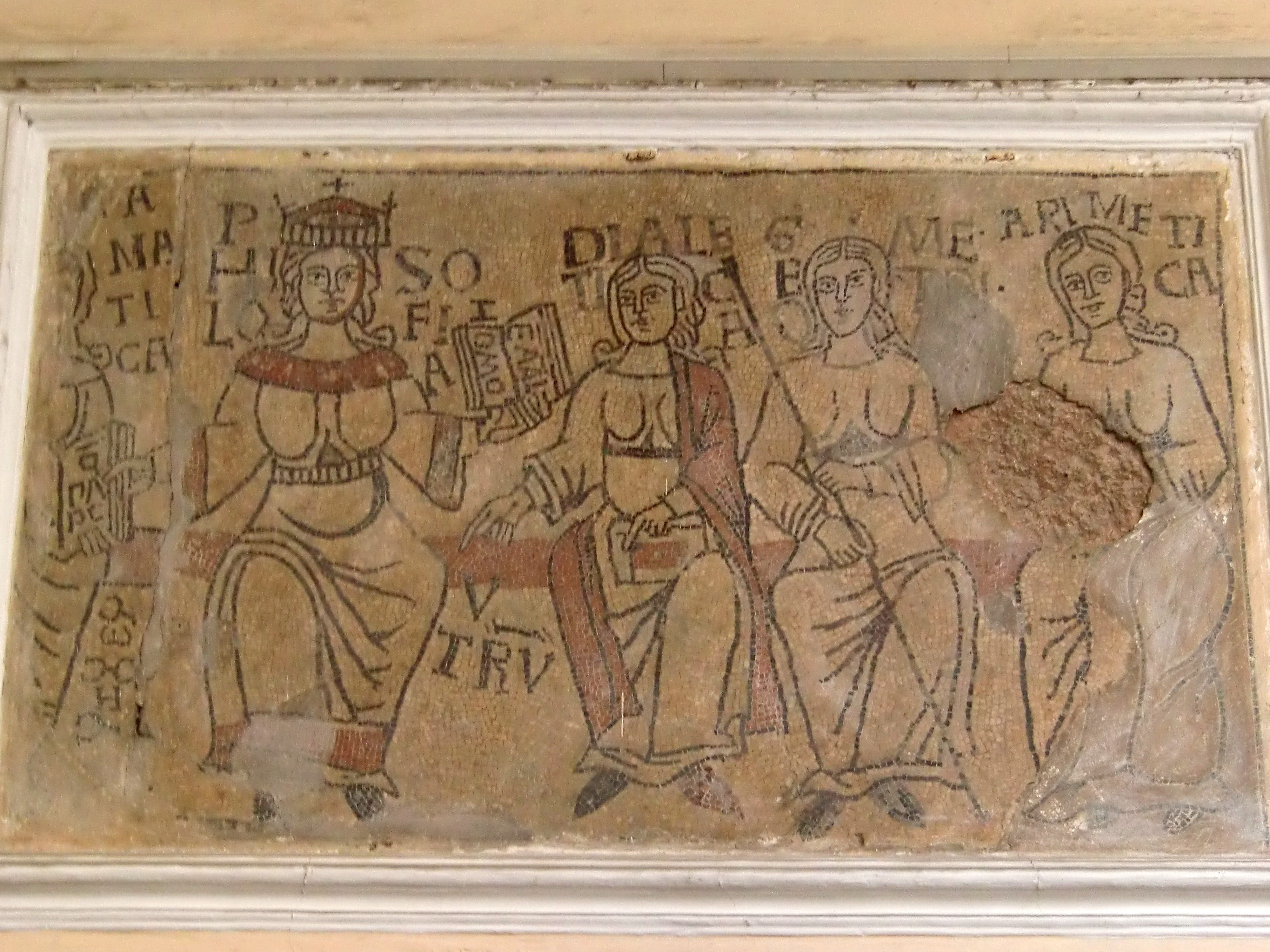 The Liberal Arts, Part of a mosaic coming probably from the floor of the Cathedral, now placed in a wall of the Episcopal Seminary, XII century, Ivrea, Turin, Italy